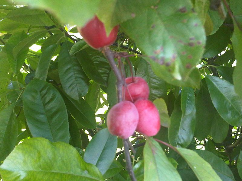 European Cornel (Cornus mas) fruits in Botany Bay, England.